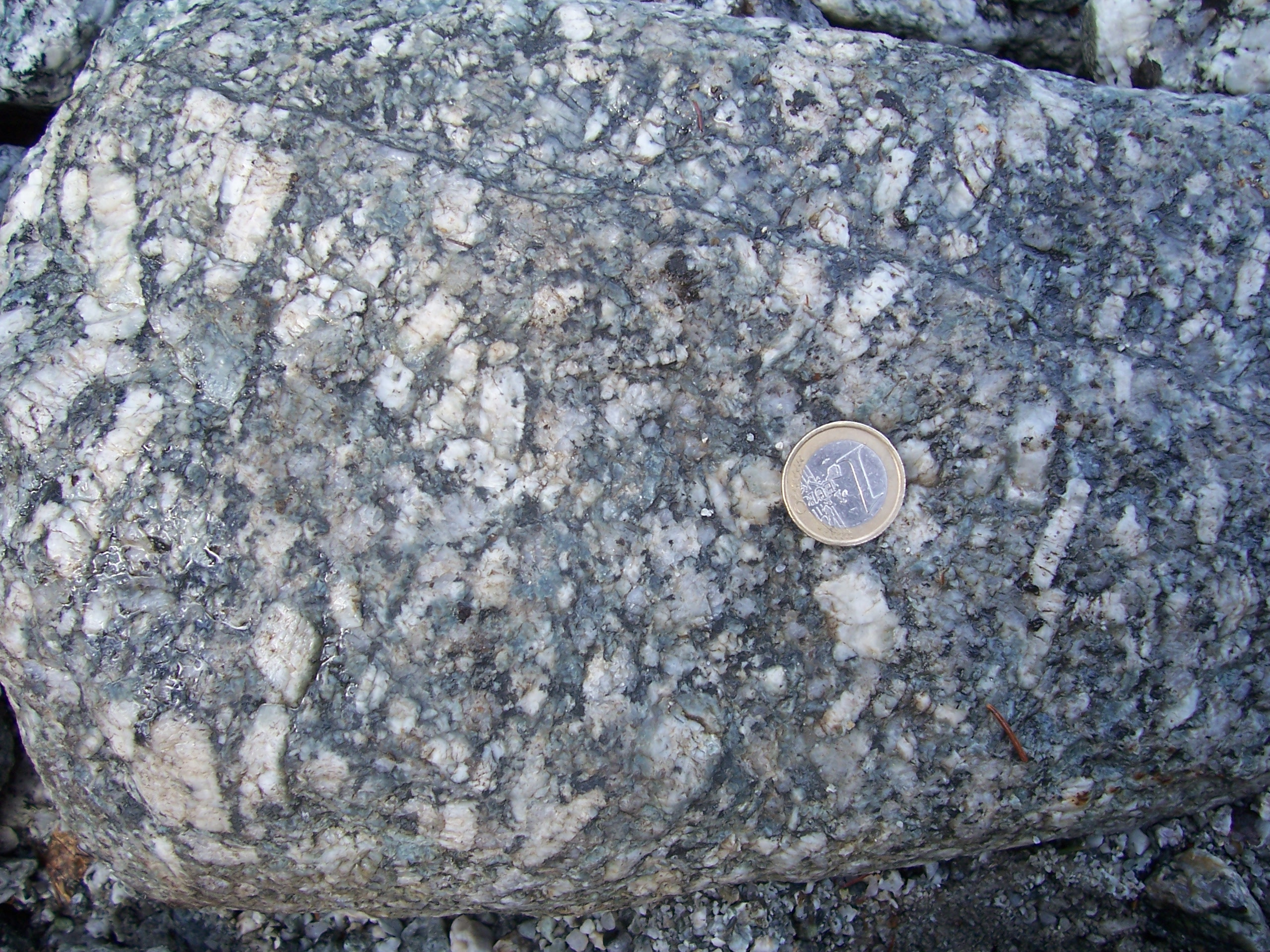 Granite above Martigny, Mont Blancmassif, Wallis, Switzerland. This granite has large (white) feldspatic phenocrysts. Coin of 1 euro (about 2,3 cm diameter) for scale. Picture taken by myself: in public domain.